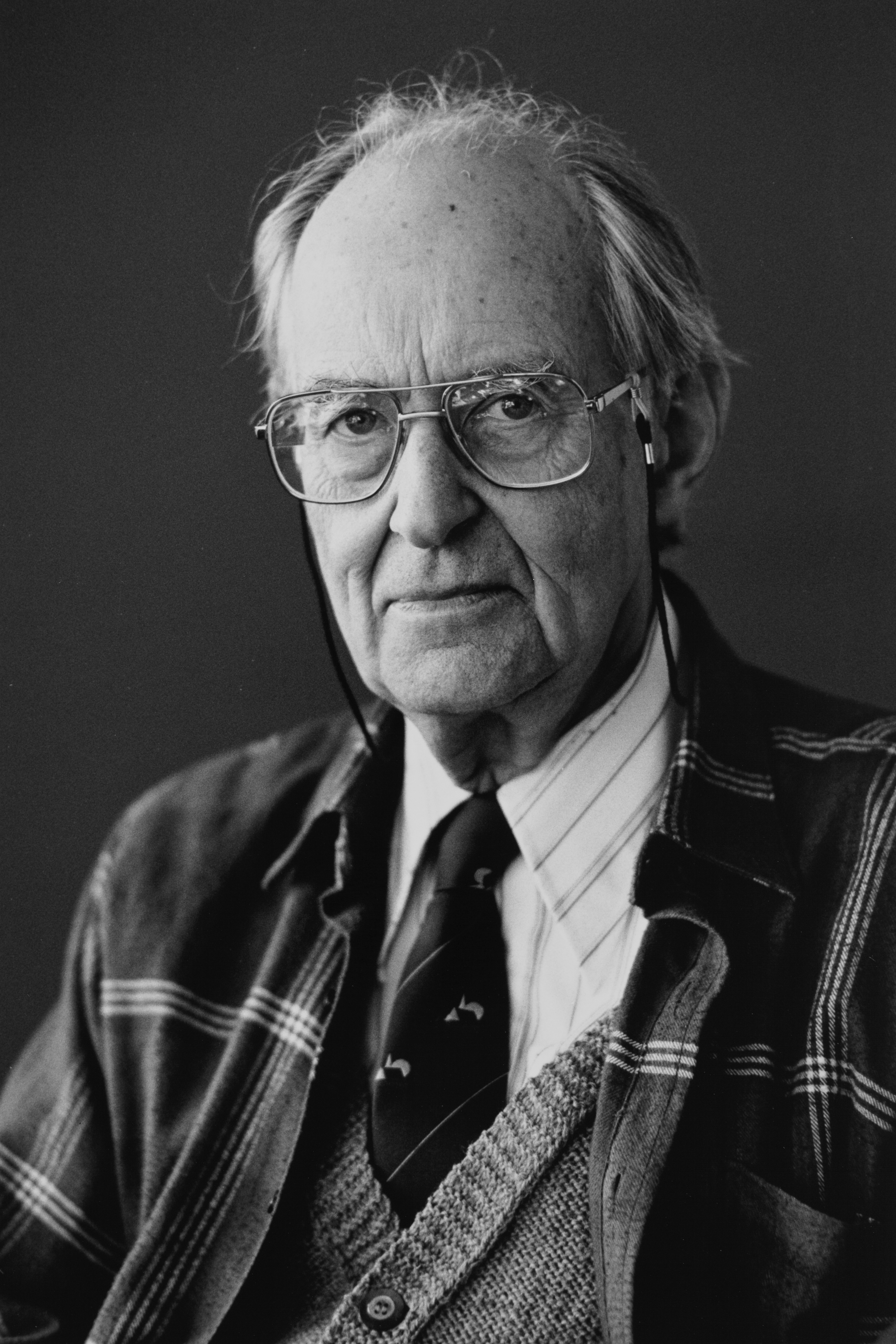 Prof. Adriaan Blaauw (1914–2010), the second ESO Director General (from 1970–1974), seen here in the author portrait from his book “ESO’s Early History”. (1991)